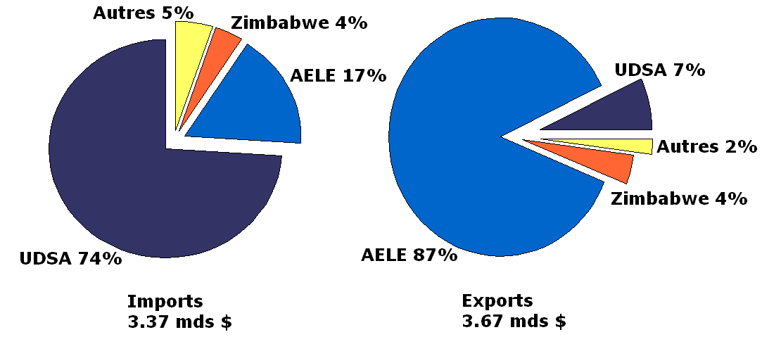 Partenaires commerciaux du Botswana (2004) Trading partners of Botswana (2004). Source: CIA World Factbook [1]